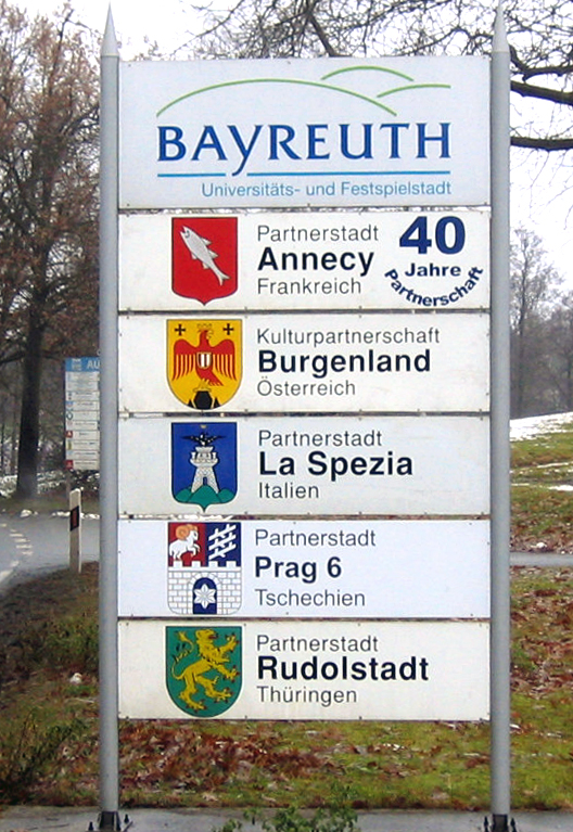 Sistercities of Bayreuth (Germany) mentiones at the entrance of th town.